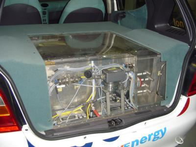 Methanol Brennstoffzelle Mercedes Benz Necar.